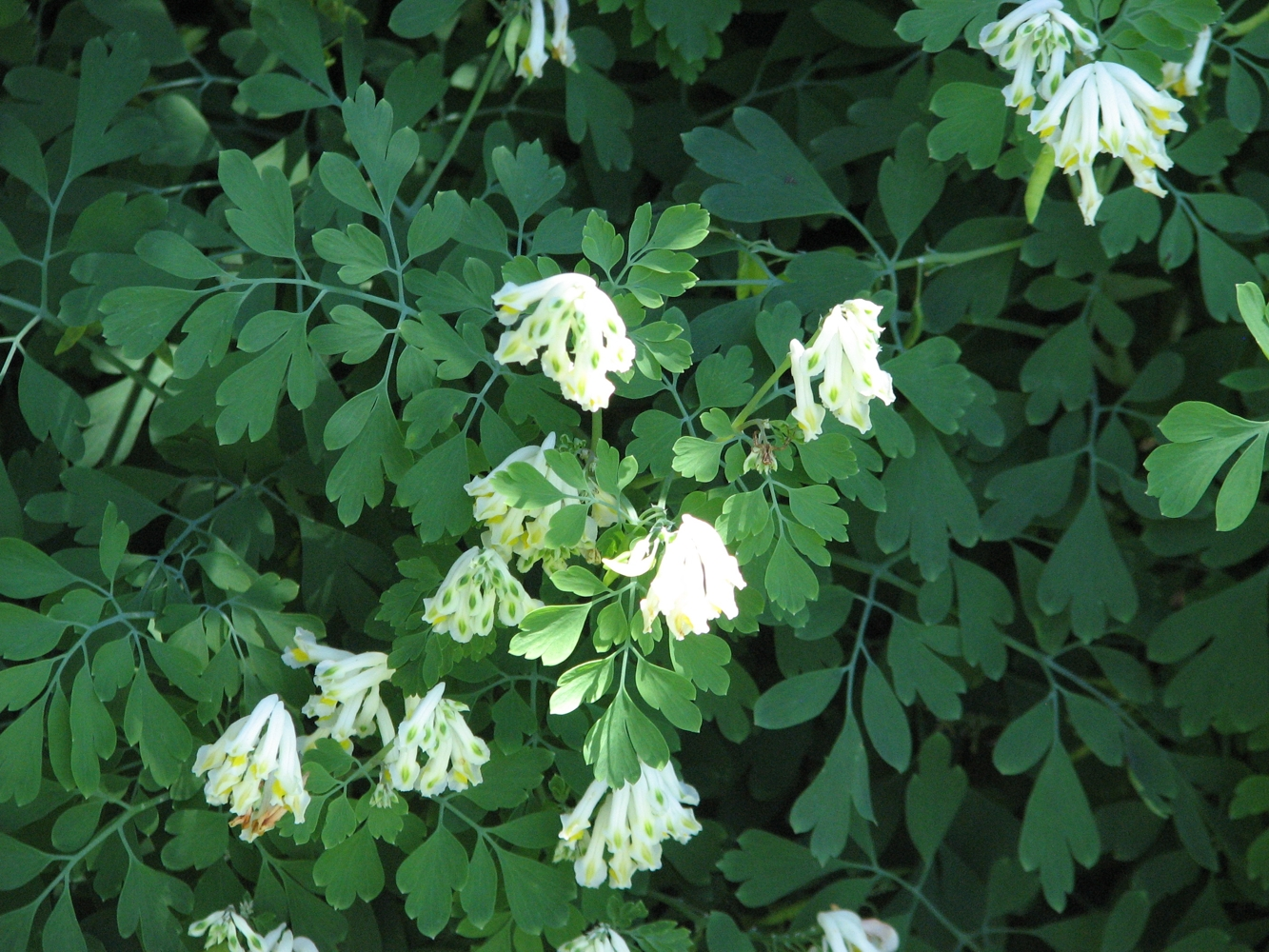 Pseudofumaria alba (not labelled, cultivated) Royal Botanic Gardens, Melbourne, Australia